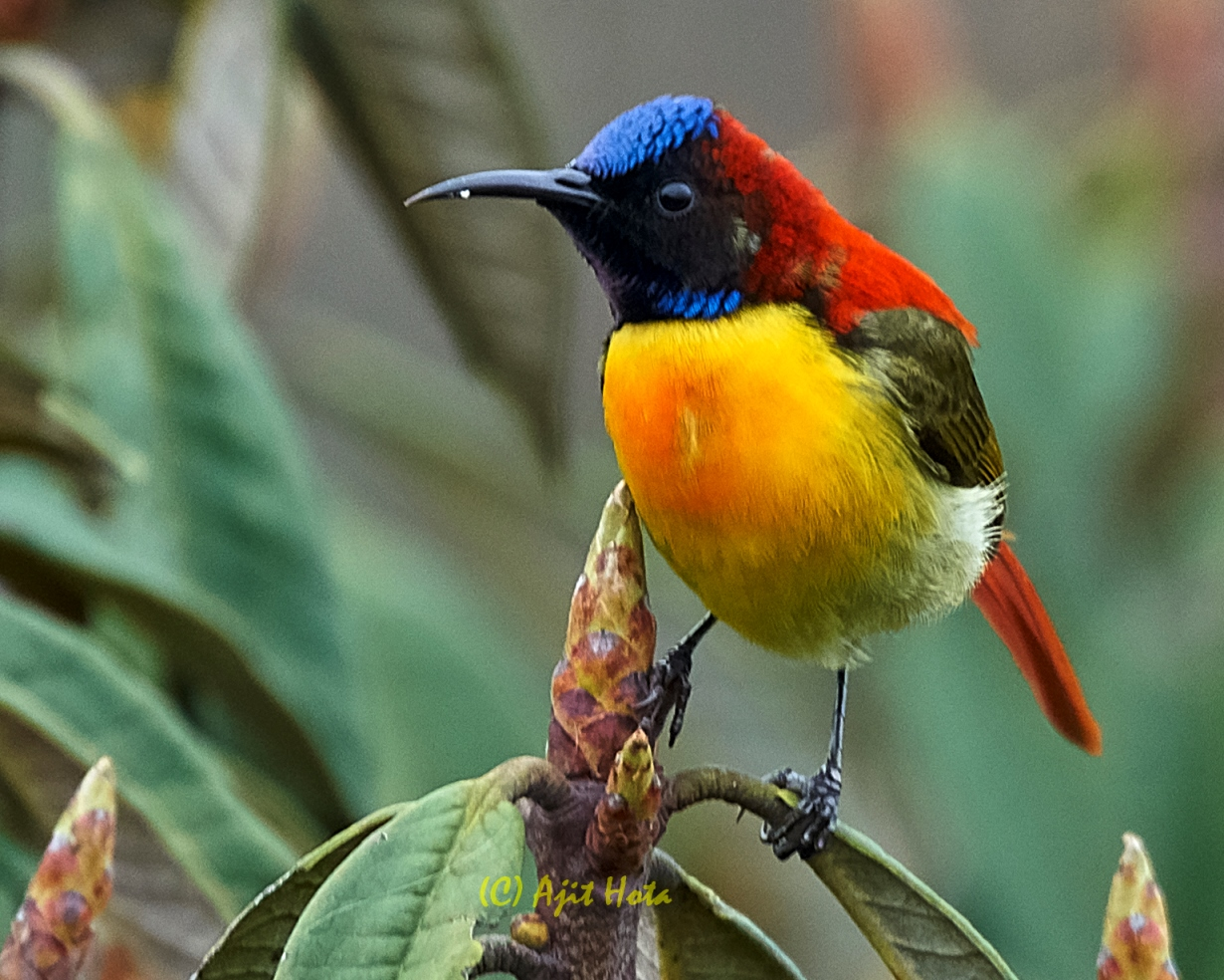 Fire Tailed Sunbird at Singalila